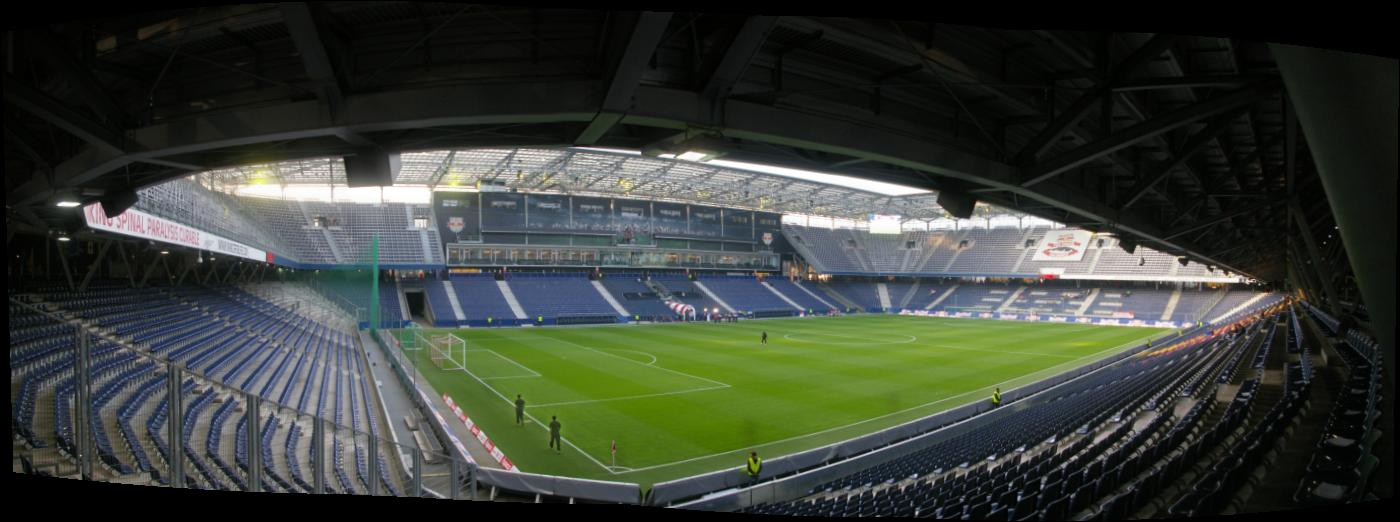 league match 11th round Austrian Bundesliga